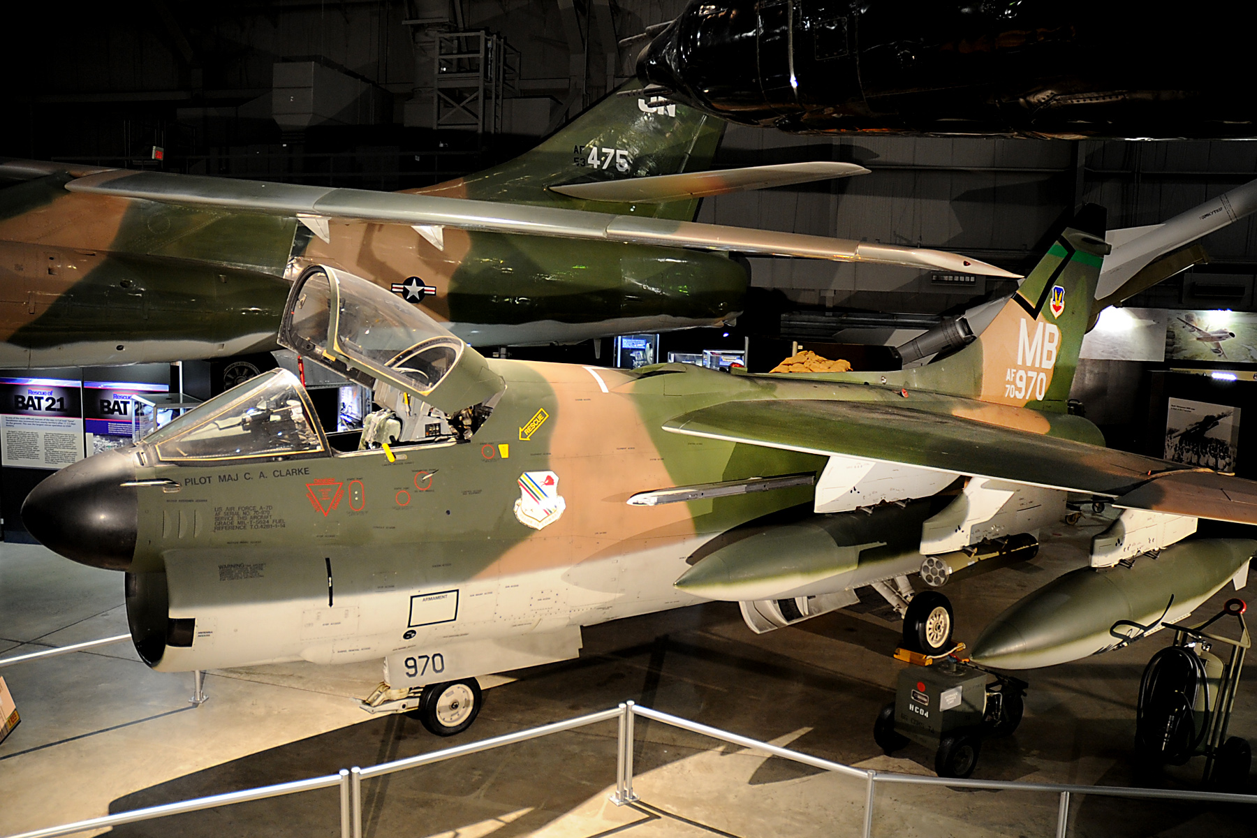 LTV A-7D Corsair II in the Southeast Asia War Gallery at the National Museum of the U.S. Air Force. (U.S. Air Force photo) It is now on display at the National Museum of the United States Air Force